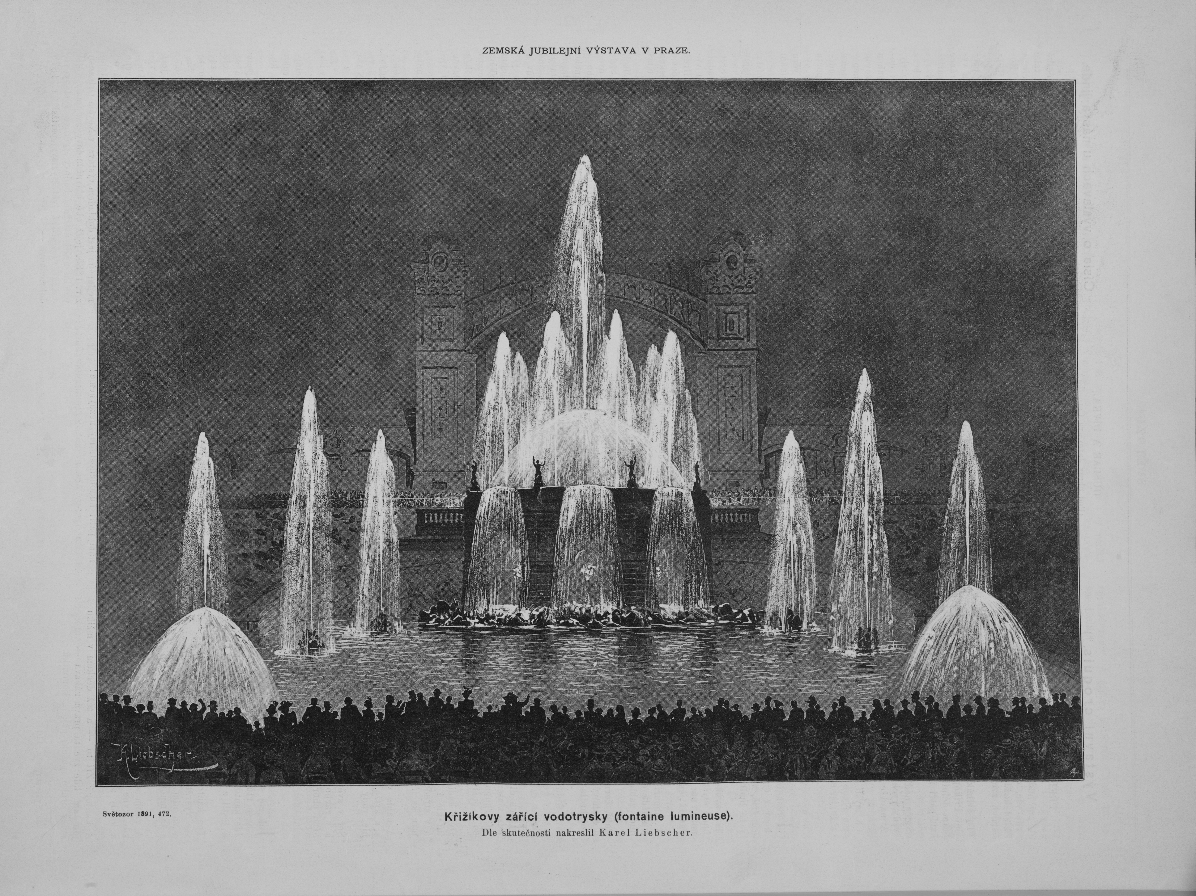 Krizik's fountain, a show combining the effects of water, color light and music, during Anniversary Exhibition in Prague 1891.